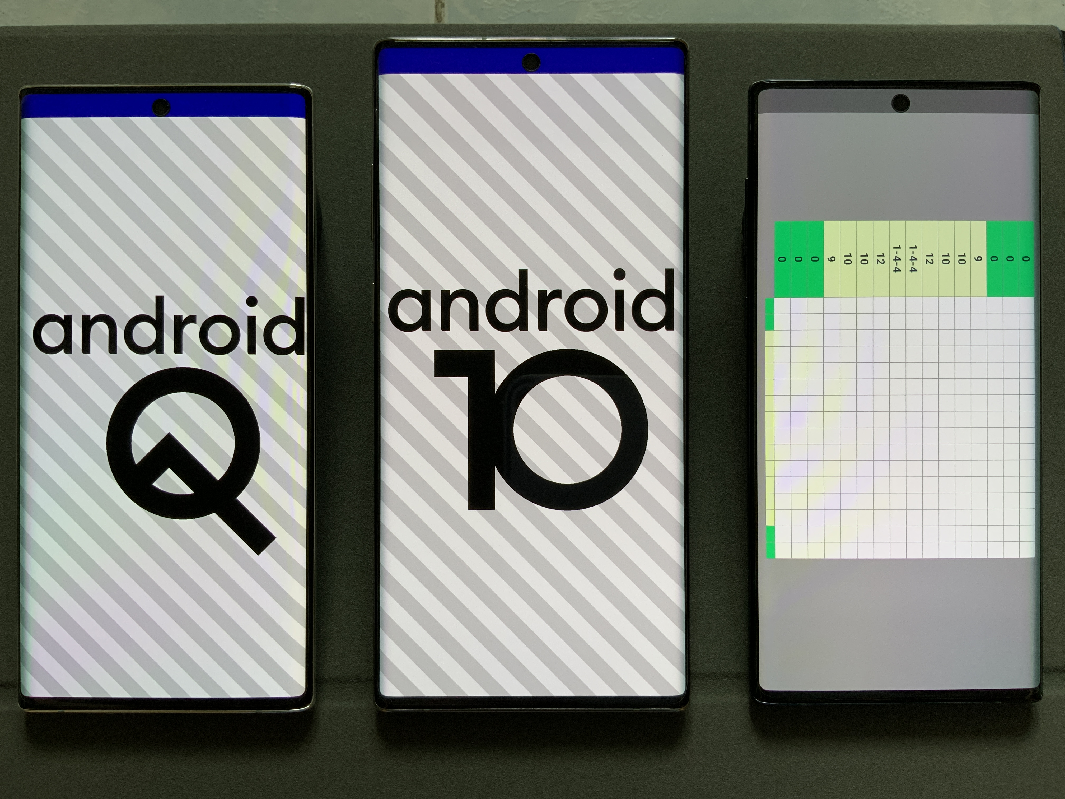 SAMSUNG Galaxy Note10 SAMSUNG Galaxy Note10 5G SAMSUNG Galaxy Note10+ SAMSUNG Galaxy Note10+ 5G